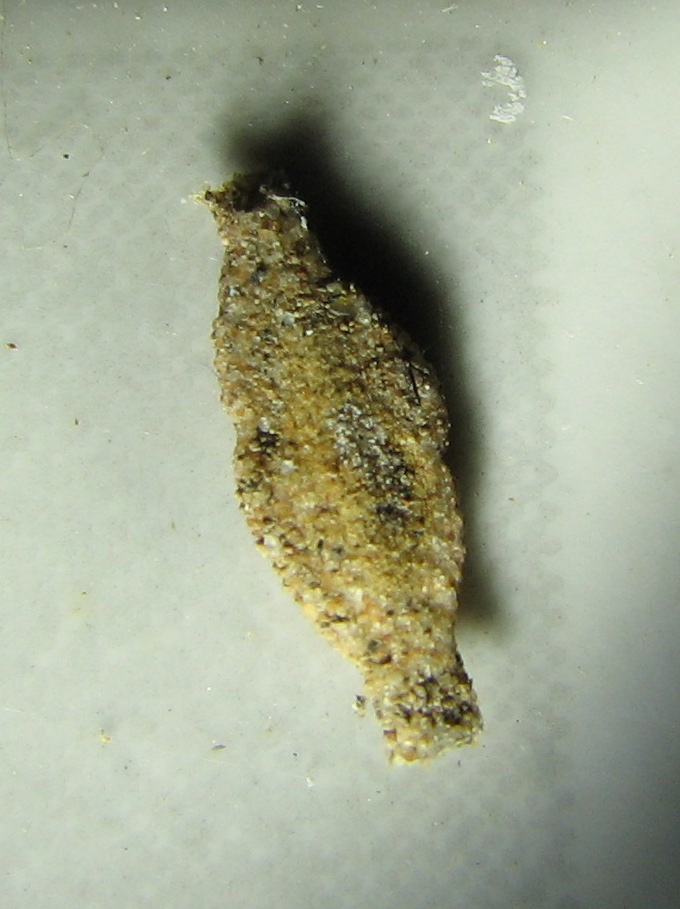 Larval case of a case-bearing tineid on a wall in the Pantanal, Brazil. It might be a plaster bagworm (Phereoeca uterella) or Praeacedes atomosella.